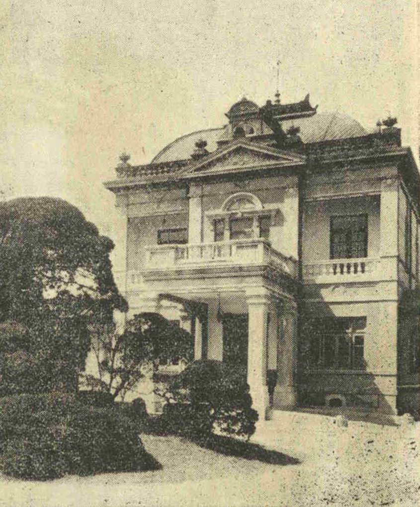 Prince Yi Kang/Yi Geon House